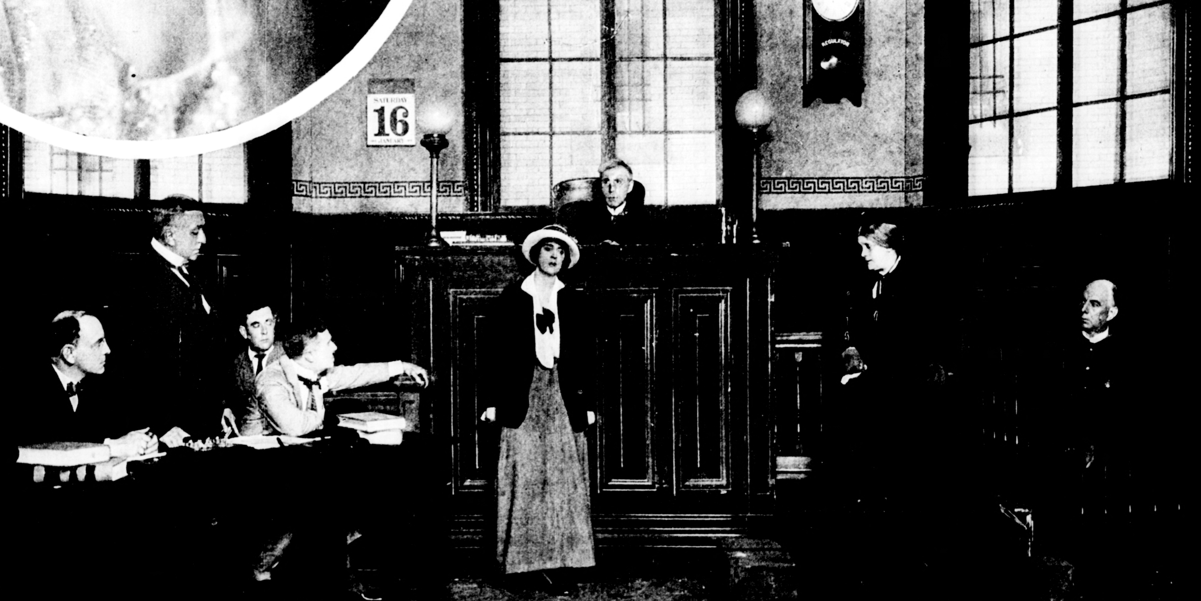 Common Clay is a 1915 play by the American writer Cleves Kinkead. (Photo published in a newspaper of the third act. Jane Cowl is in the center. John B. Mason is possibly standing on the left. [The contemporary newspaper labeled him as such but IBDB has him credited as the judge.])